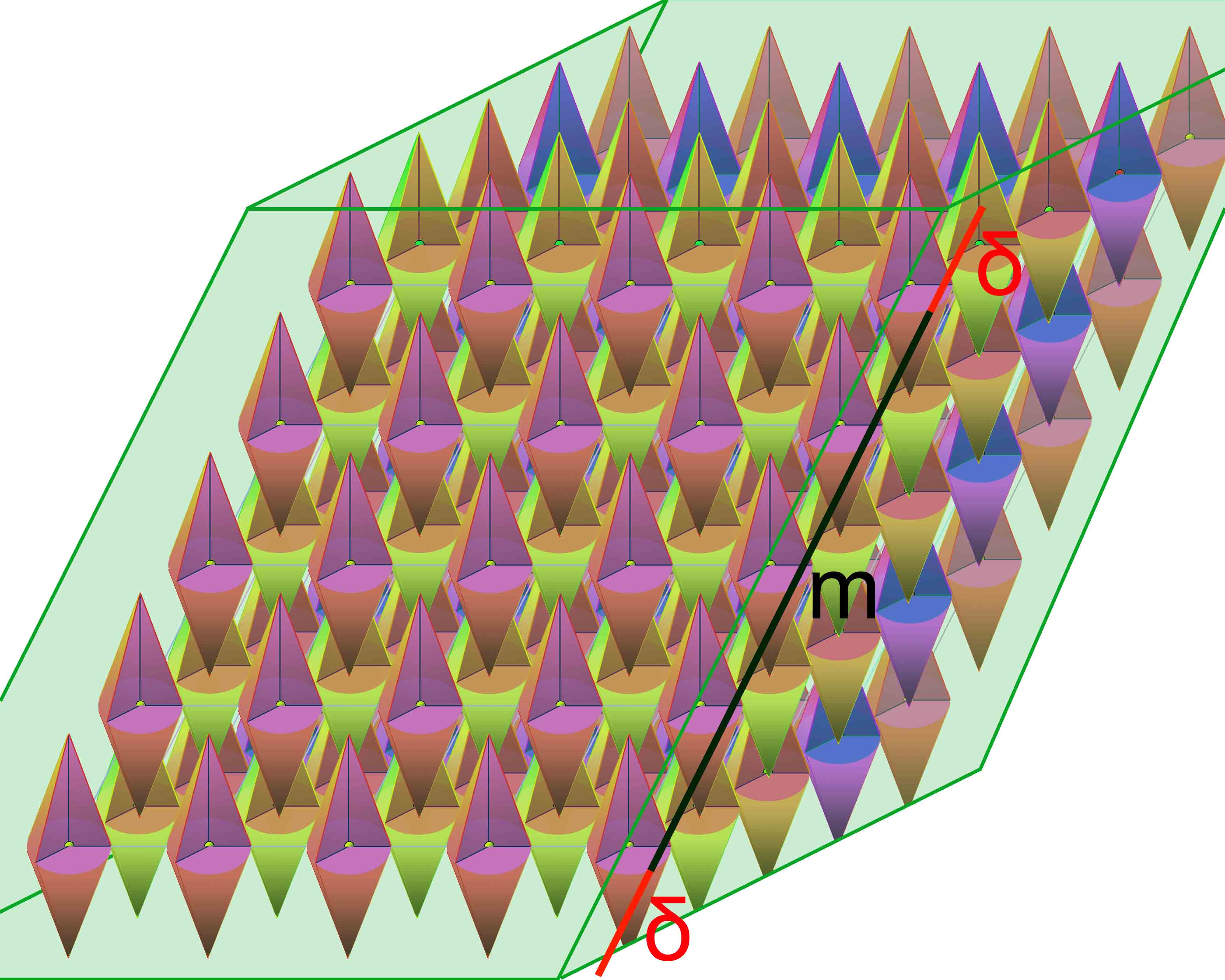 Minkowski's theorem's illustration, about geometrical arithmetics.